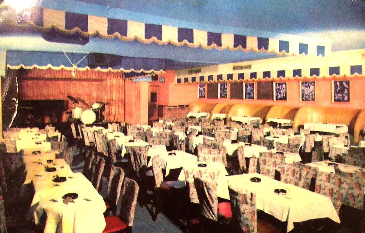 Photo of the interior of Birdland from a postcard.